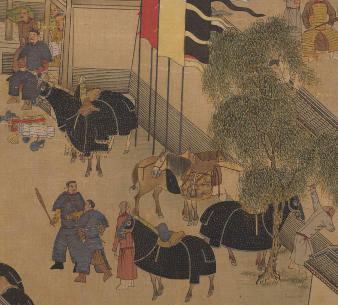 Kitten cav 1 - Copy